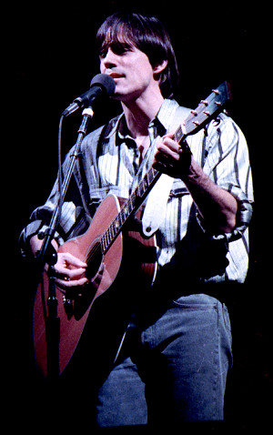 Jackson Browne, Drammenshallen, Norway